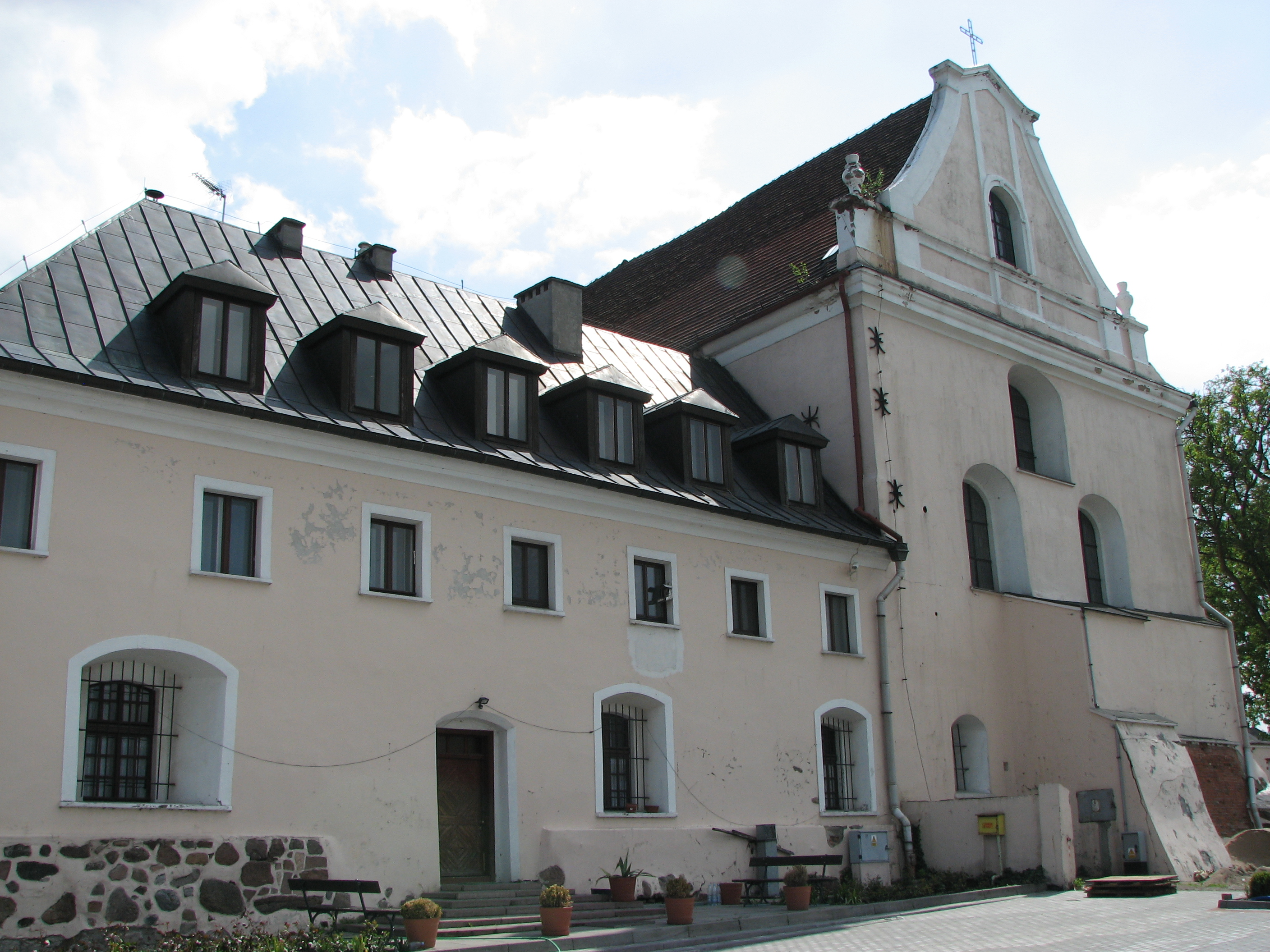 The historic Franciscan monastery of St. Bonaventure in Pakość, Poland.